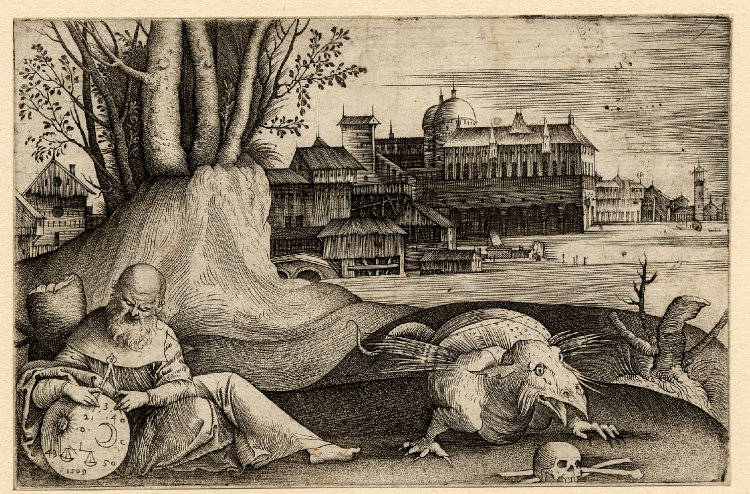 Giulio Campagnola c. 1482 – c. 1515, engraving in the British Museum